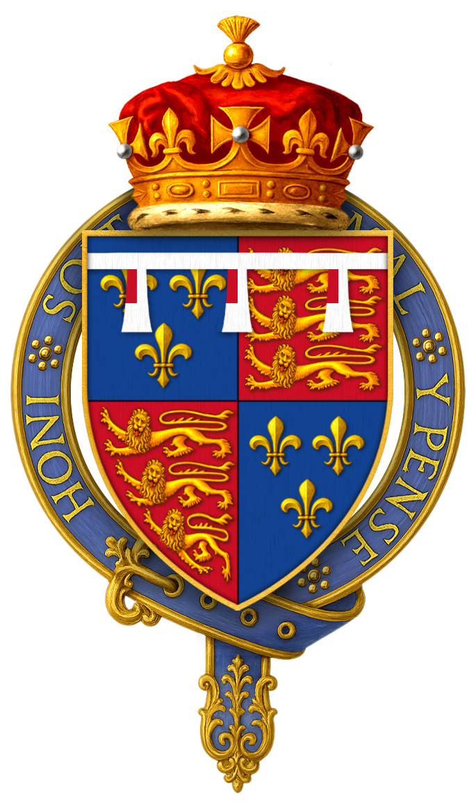 George Plantagenet, 1st Duke of Clarence, KG